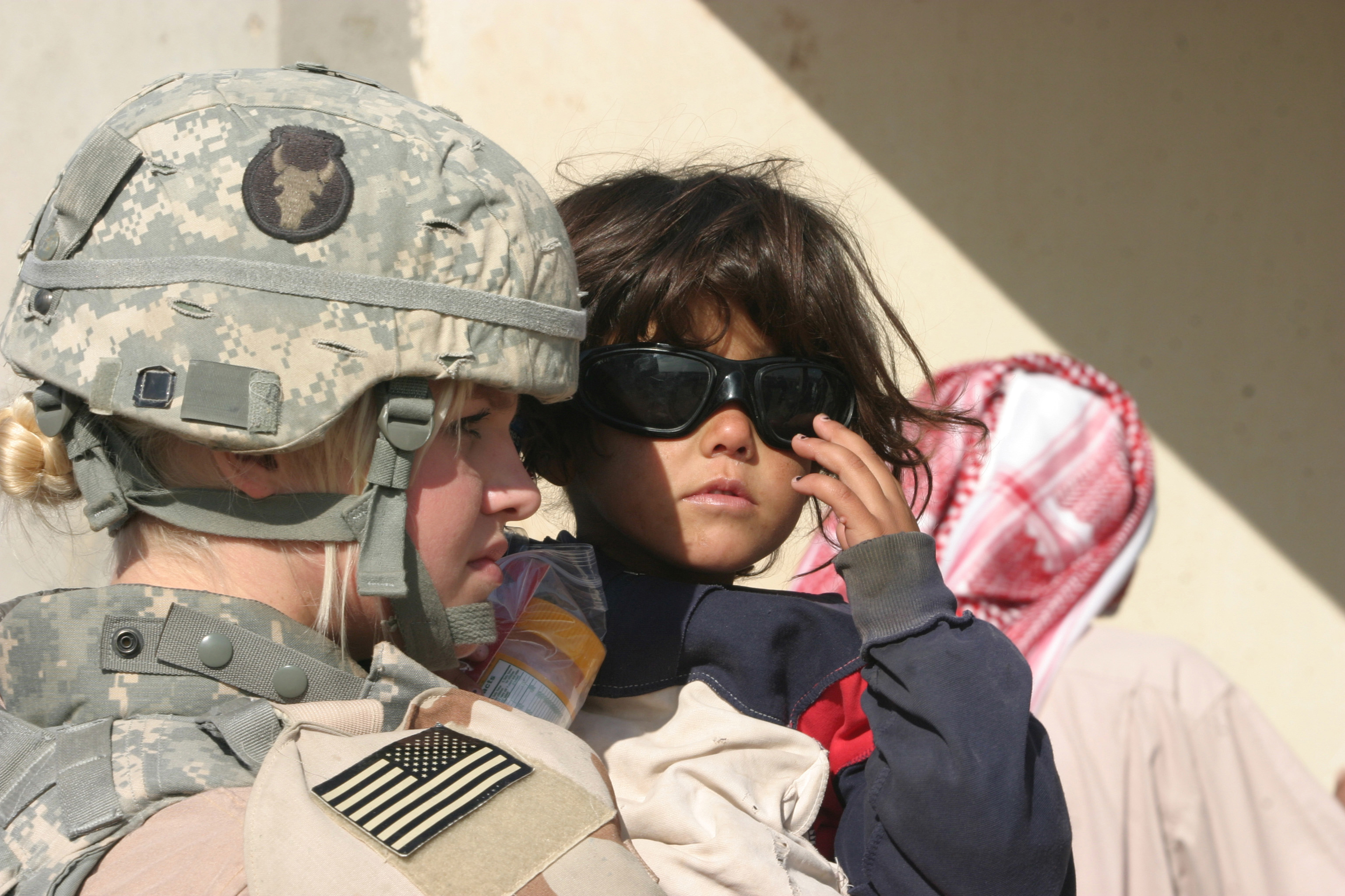 An Iraqi child tries on U.S. Army Spc. Taryn Emery's sunglasses during a humanitarian assistance mission in Qaryat Al Majarrah, Iraq, Nov. 27, 2006. Emery is with the 2nd Battalion, 136th Infantry Regiment.